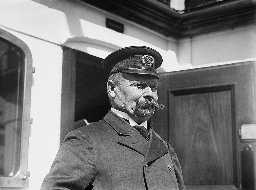 Captain Frederic von Letten-Peterssen of SS Princess Irene (1900)